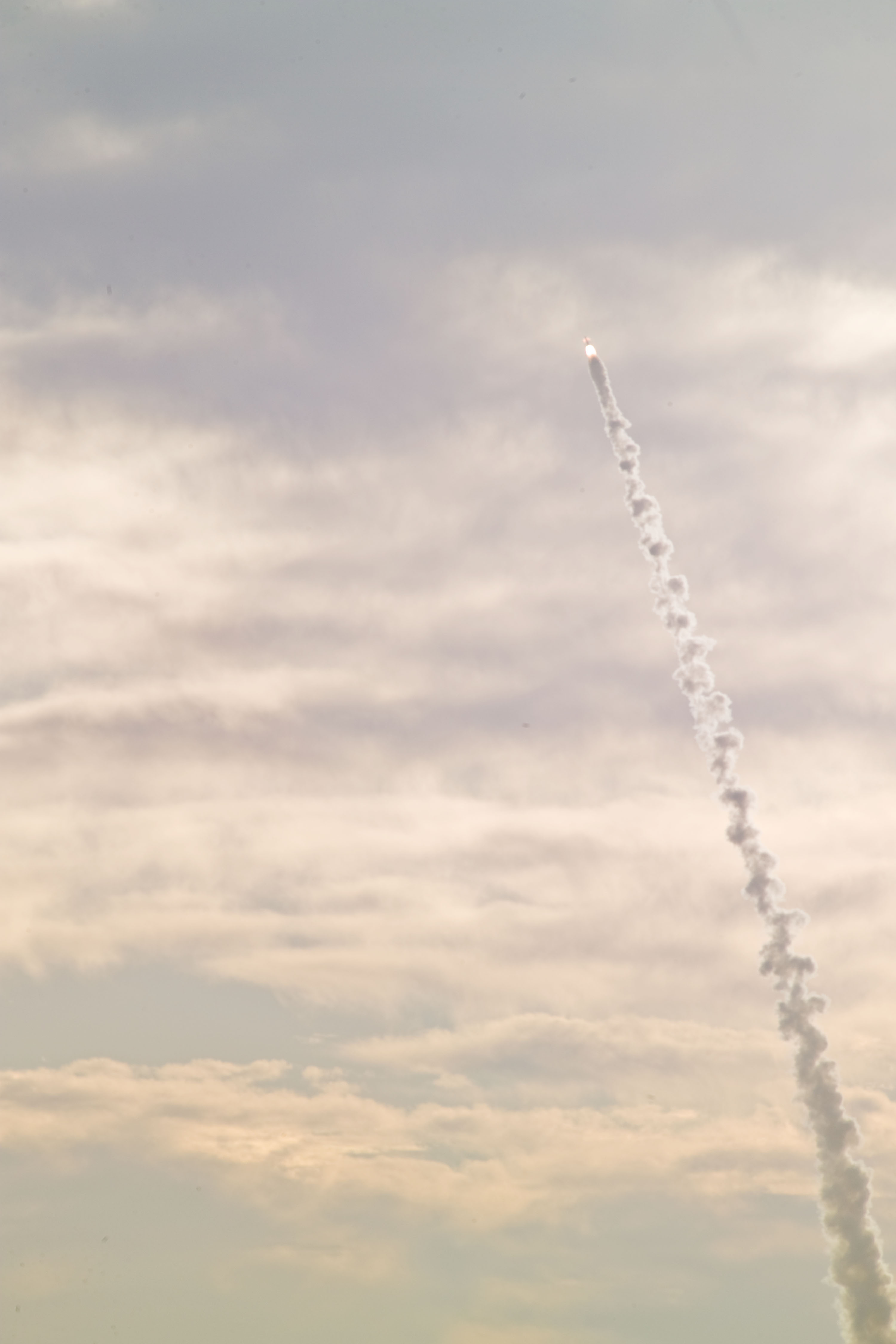 Pad Abort 1 (PA-1) launched May 6, 2010 at White Sands Missile Range, N.M. PA-1 is the first fully integrated flight test of the launch abort system being developed for the Orion crew exploration vehicle.